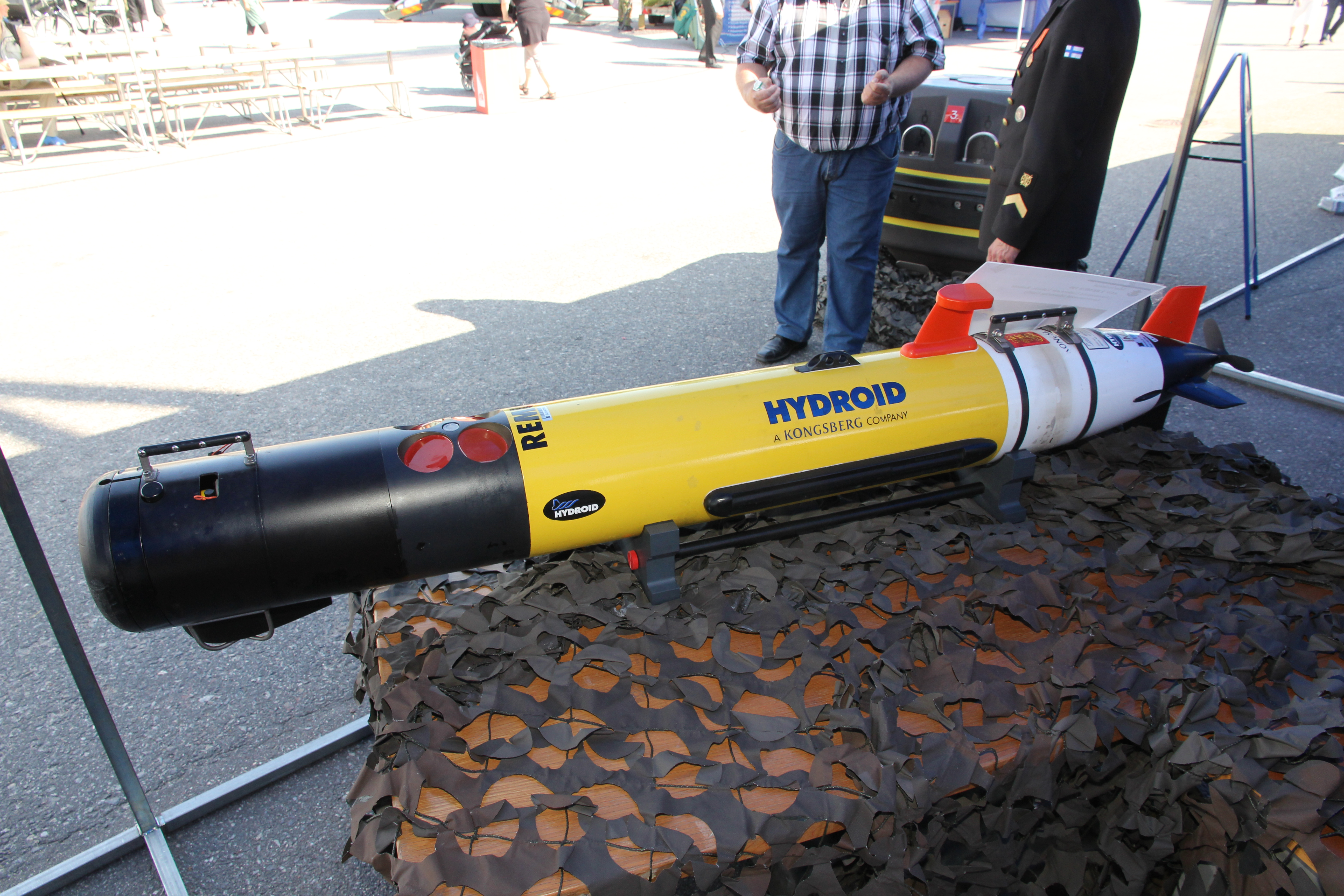 Hydroid REMUS 100 autonomous underwater vehicle on display in Turku during Finnish Navy 2014 anniversary.